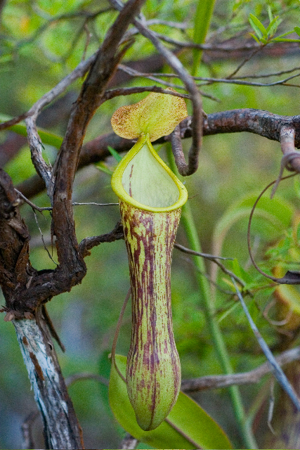 Nepenthes mindanaoensis — an upper pitcher. On Mount Legaspi, near Surigao, Mindanao region in the southern Philippines. (Alastair Robinson, July 2007).